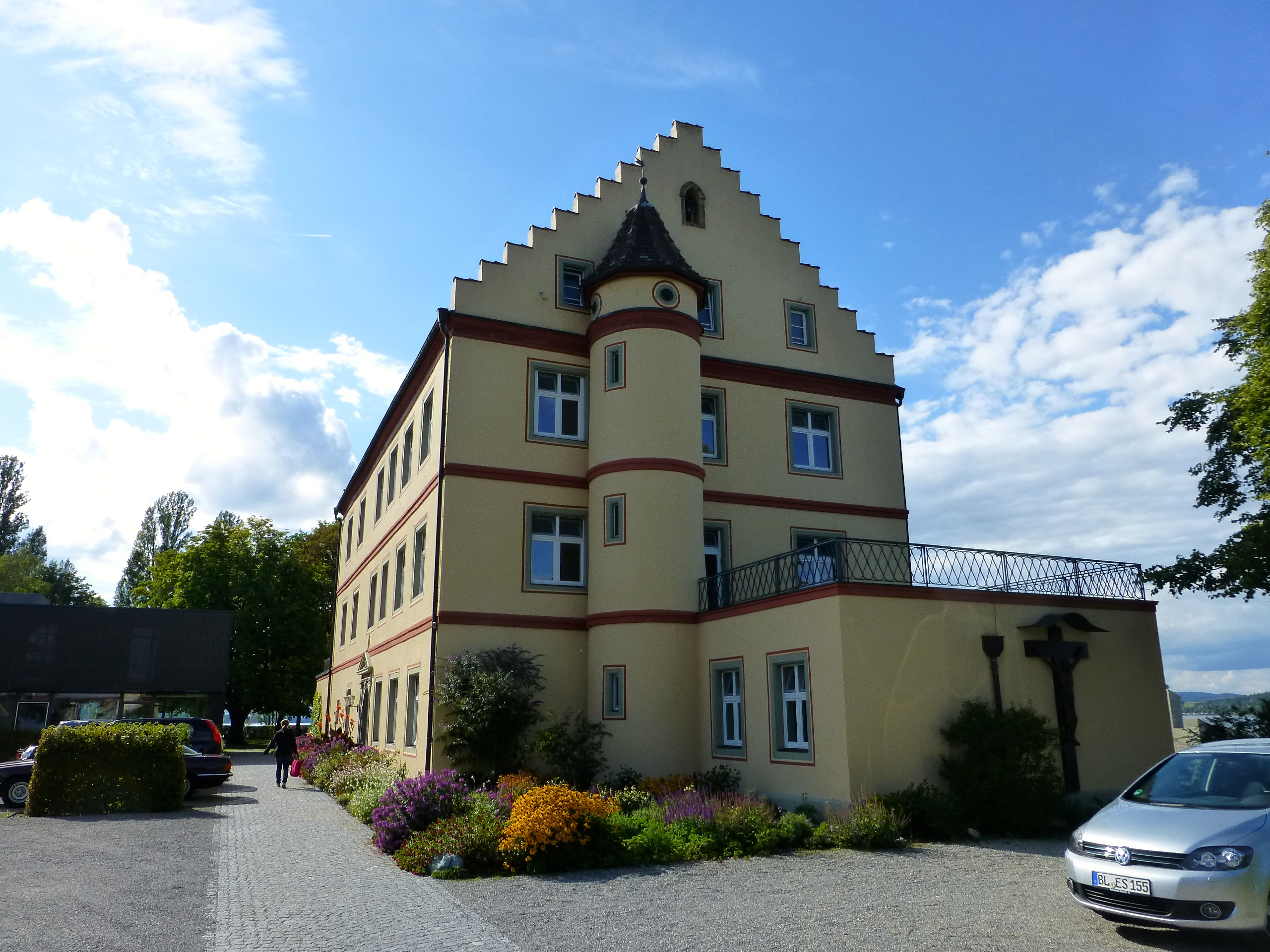 Windegg Castle (Reichenau island)